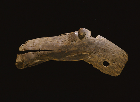 Stone age wooden sculpture reflecting a moose head, from Rovaniemi, Finland. It was probably used as bowsprit.